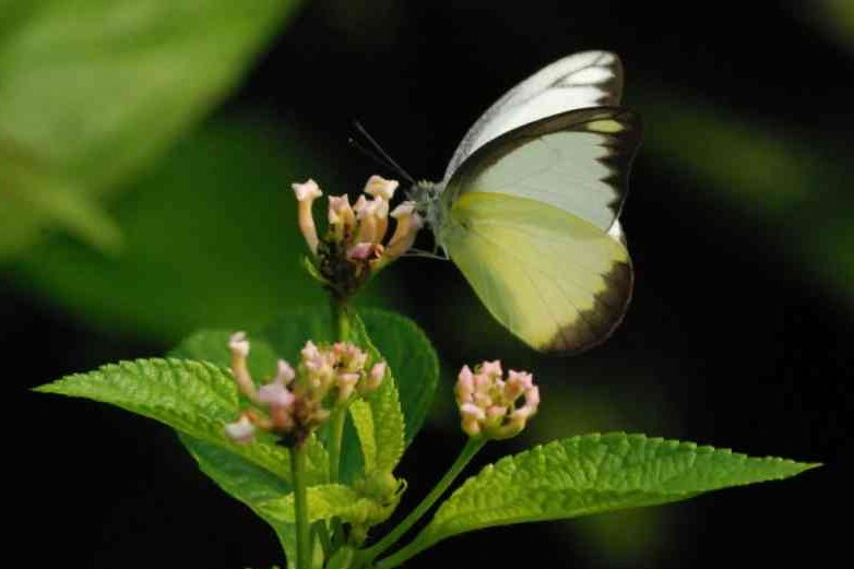 Chocolate Albatross (খয়রিকাপাস), Kolkata, West Bengal, India